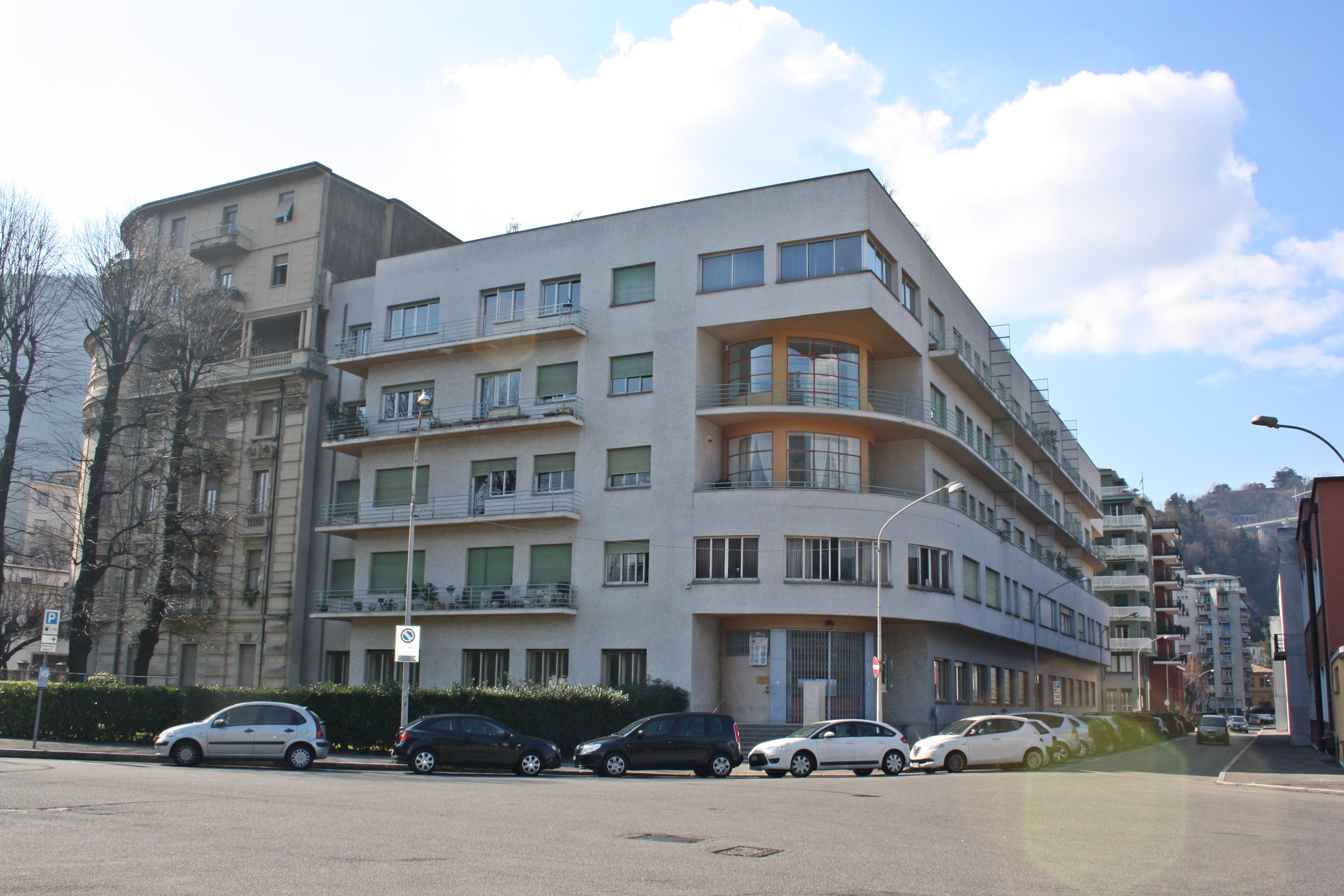 Novocomum - Giuseppe Terragni